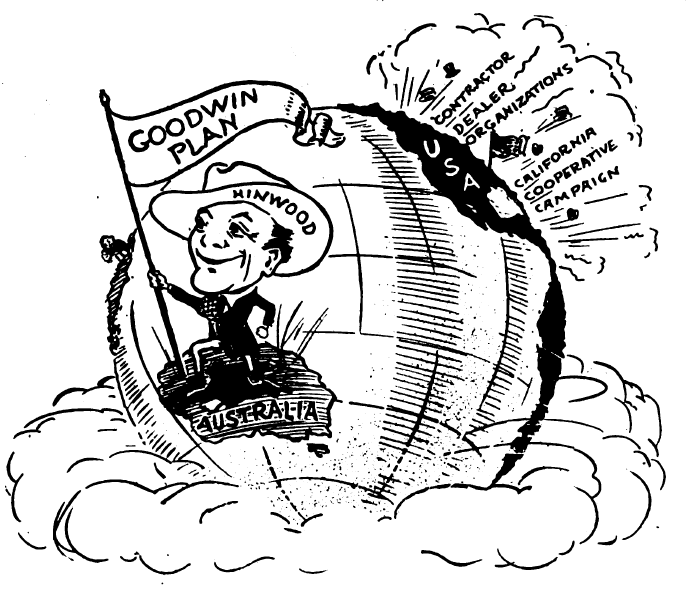 1920 Goodwin Campaign image from August 1920 Electrical Merchandizing